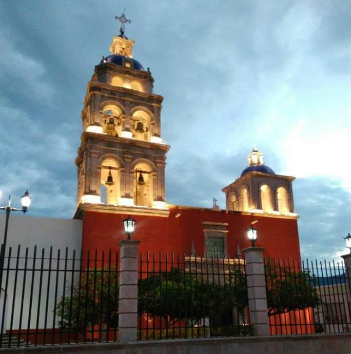 Parroquia de la Purísima Concepción